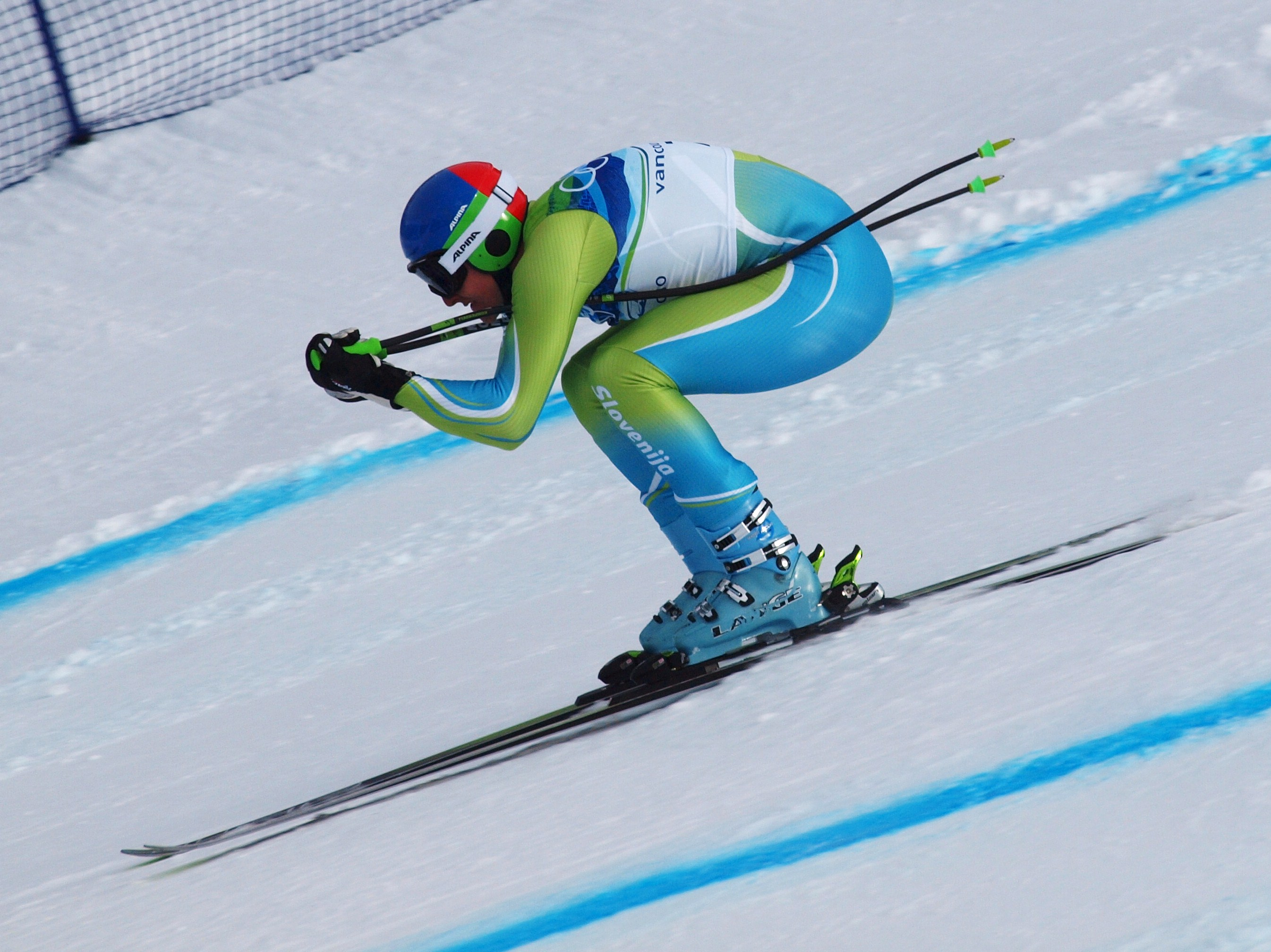 Andrej Šporn at the 2010 Winter Olympic downhill.